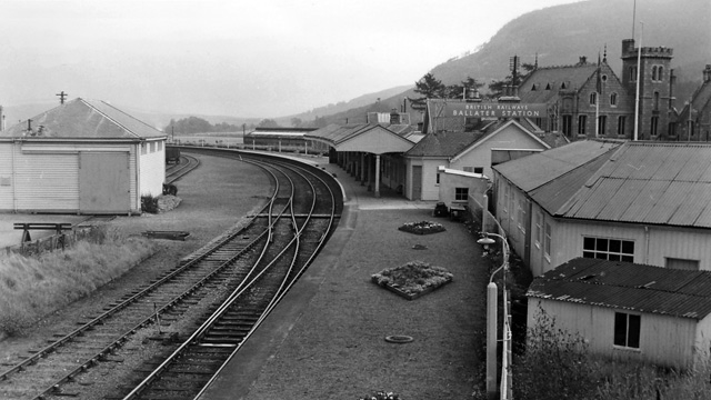 Ballater Station, for Balmoral Castle, Near to Ballater, Aberdeenshire, Great Britain. View eastward, from by buffer-stops. Terminus of important 'Royal' railway from Aberdeen, used regularly by the Royal Family but nevertheless closed 28/2/66 (Goods 4/7/66).